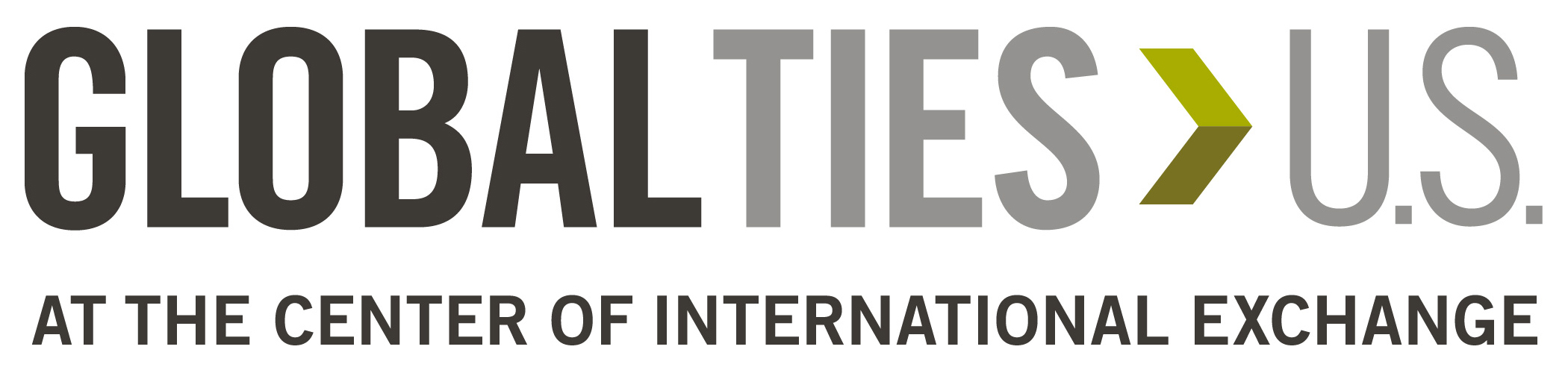 Global Ties U.S. logo and tagline